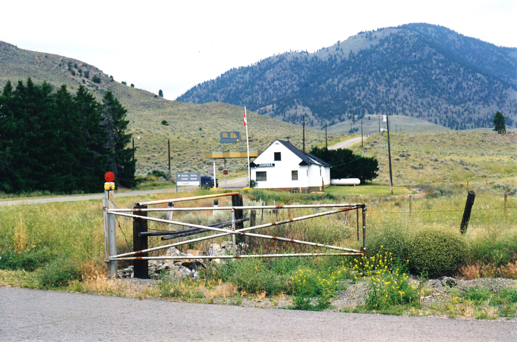 Canadian border inspection station at Chopaka as seen in 1998